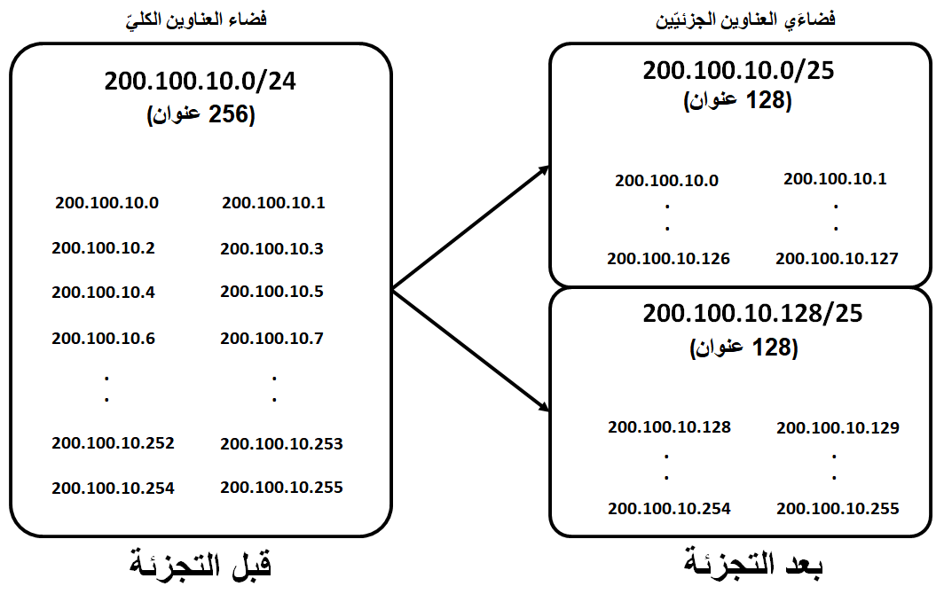 The concept of subnetting the IPv4 address space (200.100.10.0/24), which contains (256) addresses, into two partial address spaces, namely (200.100.10.0/25) and (200.100.10.128/25) with (128) addresses within each.